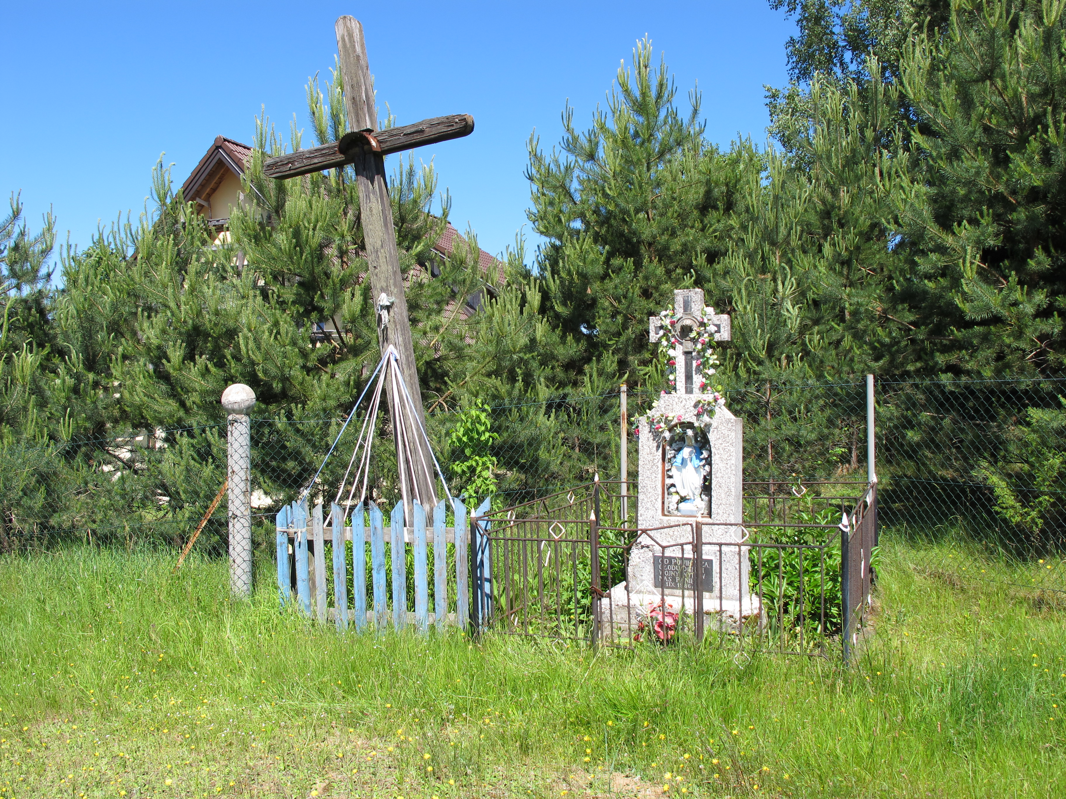 Słójka-Borowszczyzna, gmina Szudziałowo, podlaskie, Poland